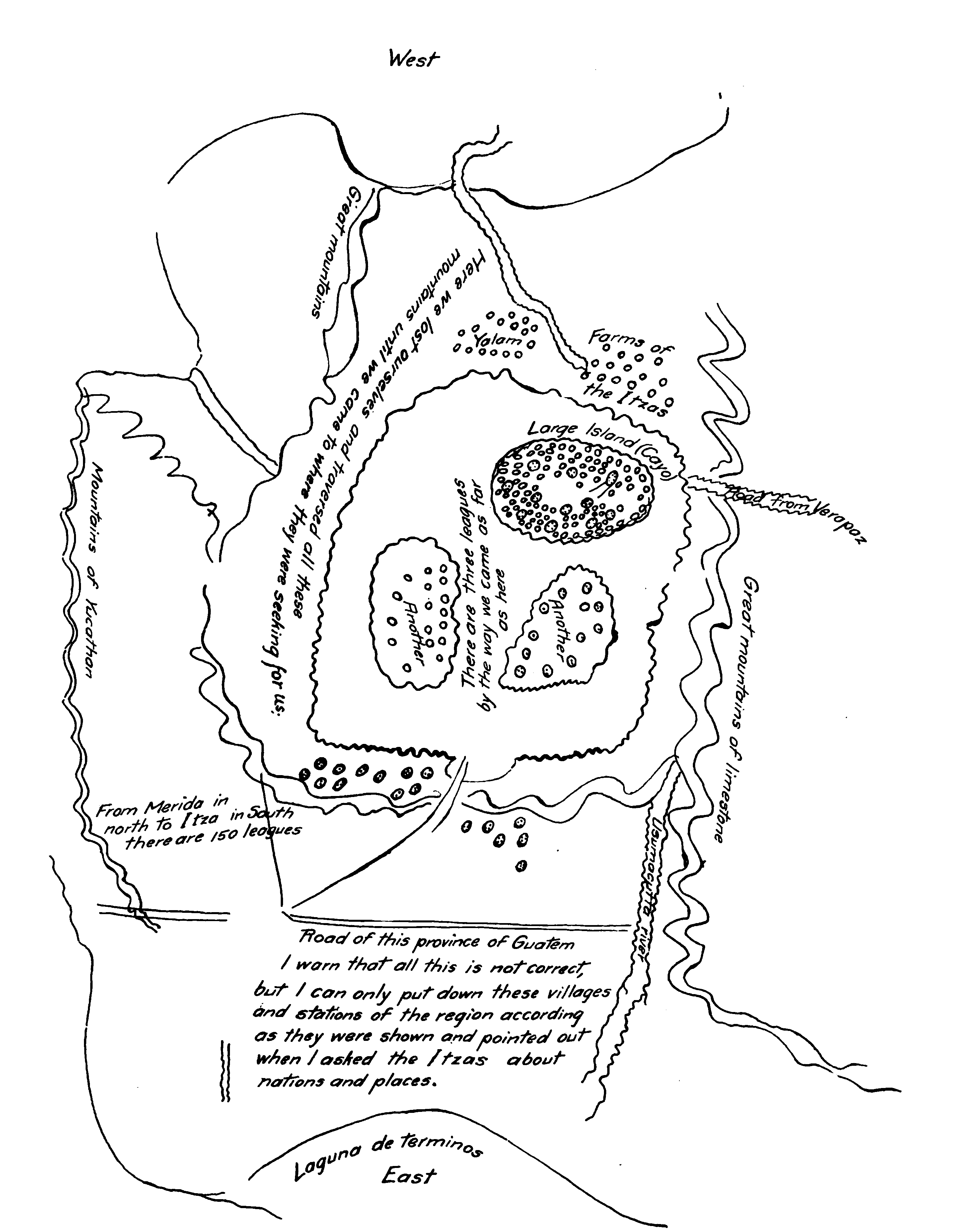 Map of Lake Petén Itzá, Guatemala, published in Philip Ainsworth Means' History of the Spanish Conquest of Yucatan and of the Itzas 1917, p.209. Reproduction of the Franciscan friar Andrés Avendaño y Loyola's 1696 map in English.